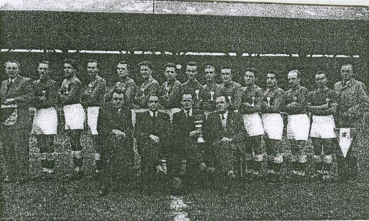 Dorog has been winner in first time in 1948